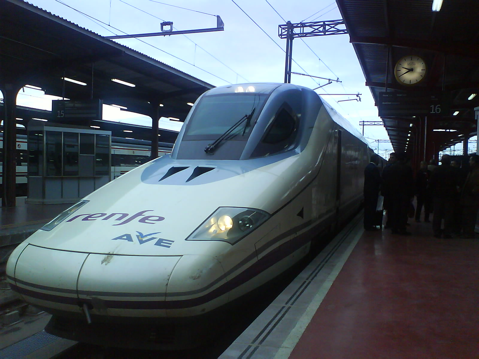 First AVE composition in regular service between Madrid and Valladolid (Spain), arriving at Madrid Chamartin station, at 9:37 on December 23, 2007